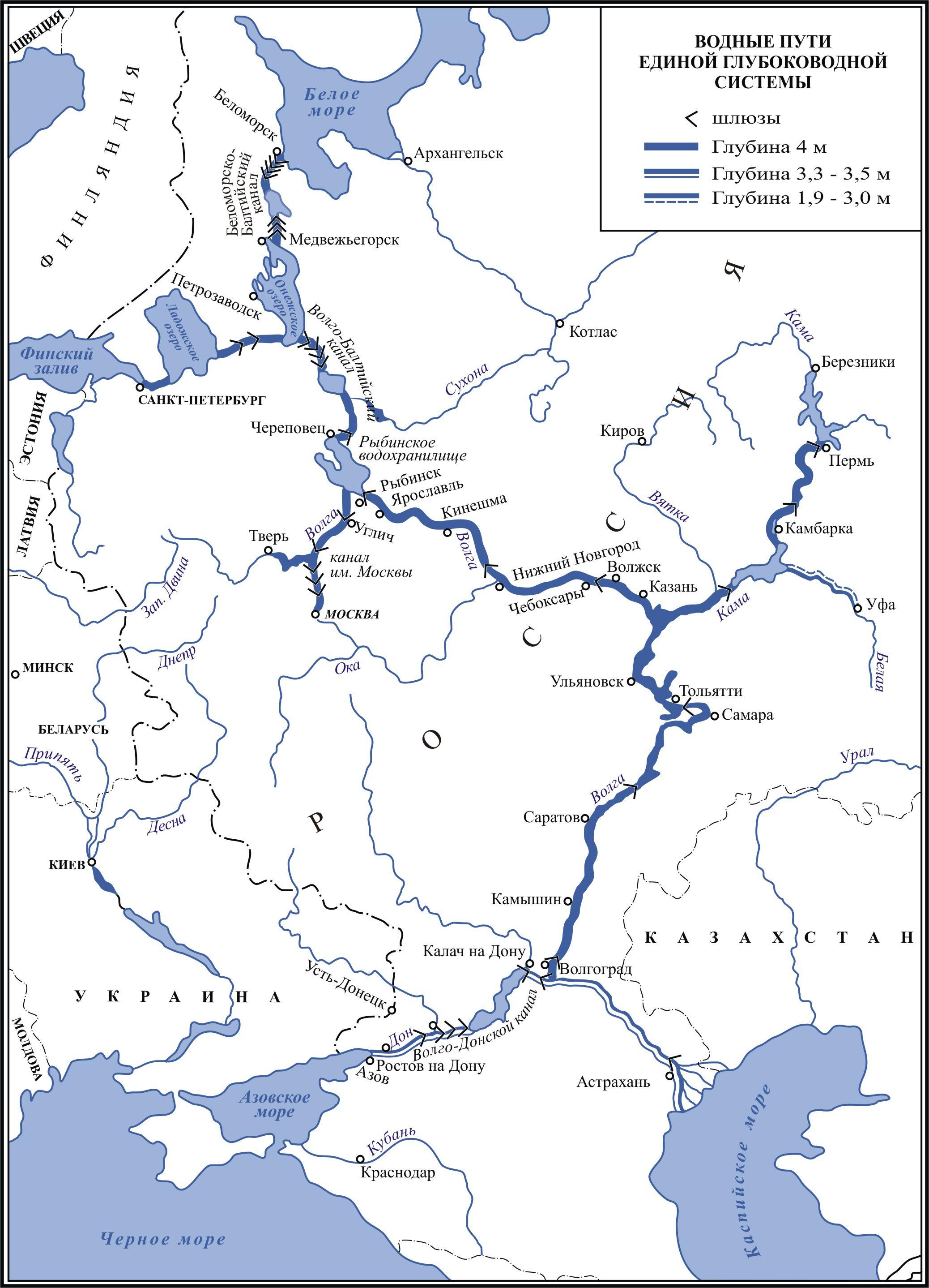 Unified Deep Water System of European Russia (Map)